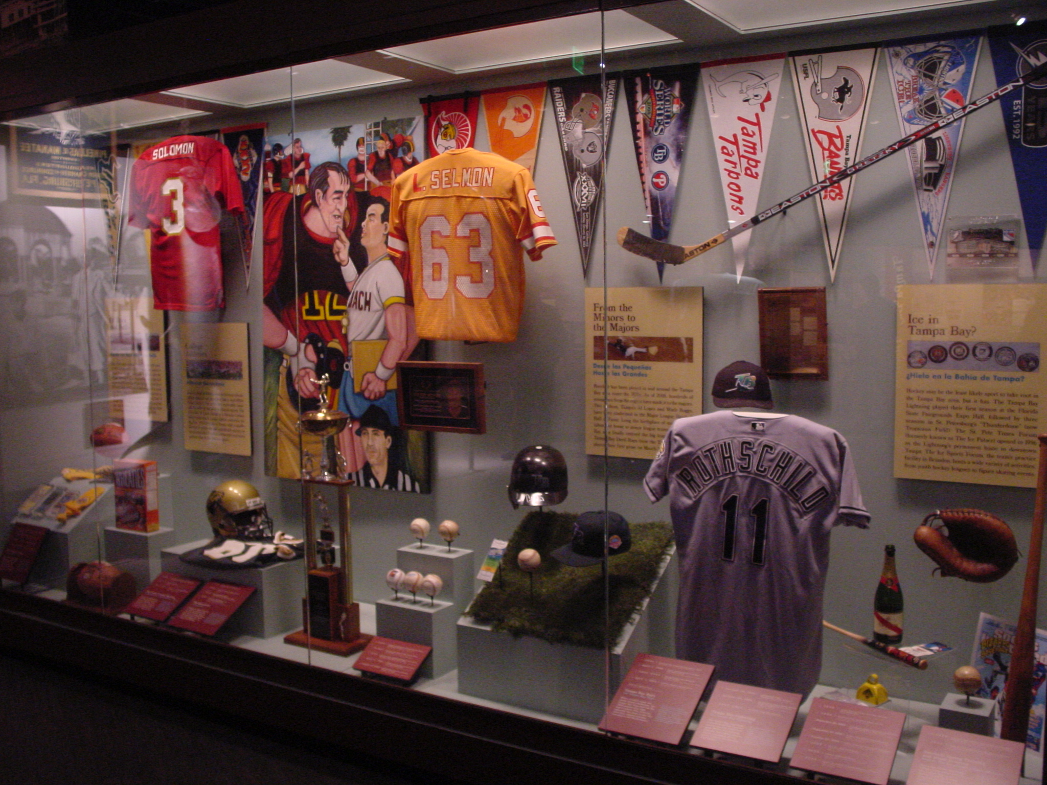 Part of the display on sports franchises in Tampa Bay at the Tampa Bay History Center in Tampa, Florida.